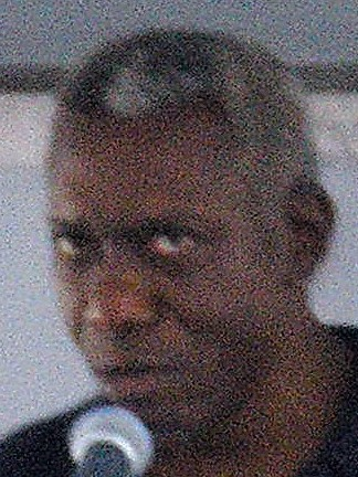 Yusef Komunyakaa by David Shankbone, New York City